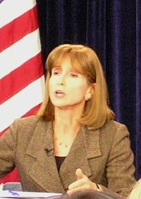 Under Secretary of State for Democracy and Global Affairs Paula Dobriansky